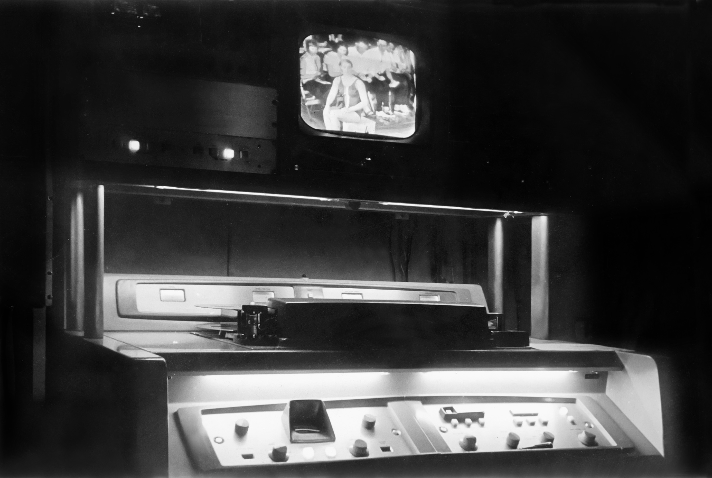 Ampex VR 1000C Quadruplex Broadcast Video Tape Recorder